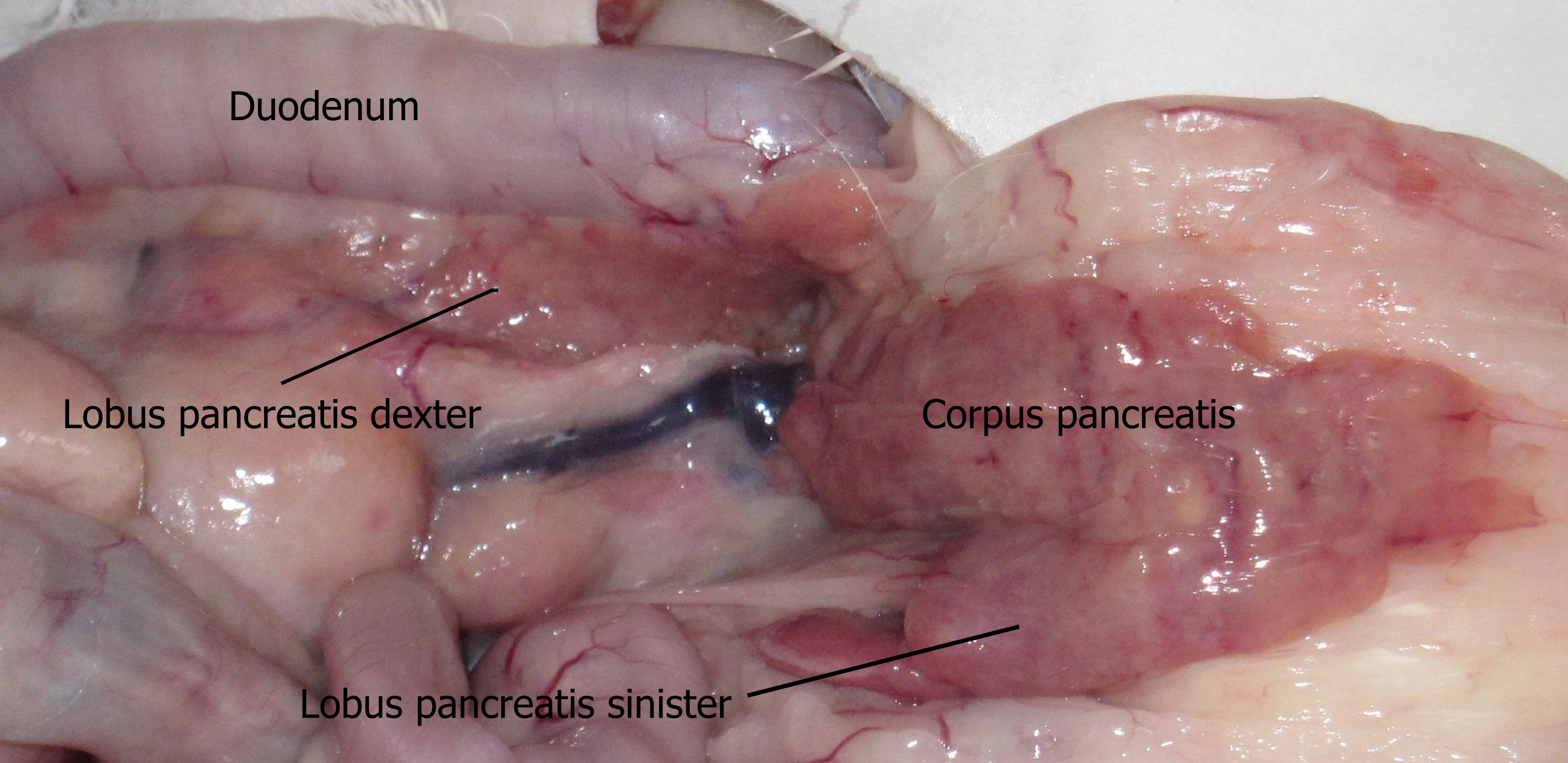 pancreas of a domestic cat